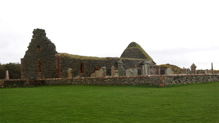 Skipness Chapel (aka Kilbrannan Chapel) - Skipness, Argyll and Bute, Scotland